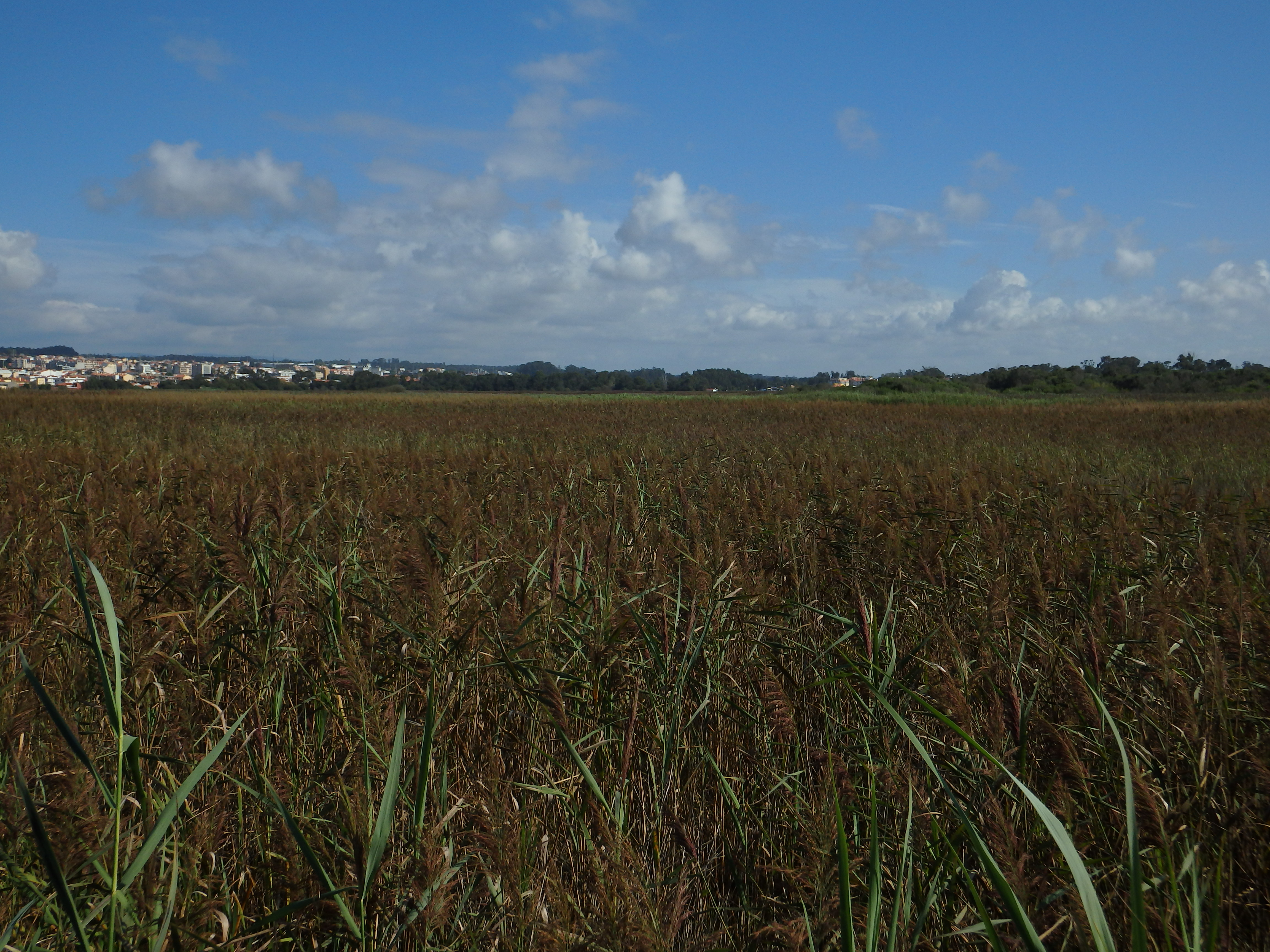 Phragmites australis now covers most of the Barrinha de Esmoriz, a coastal lagoon and Natura 2000 site. This is a photography of a Site of Community Importance in Portugal with the ID: PTCON0018. Natura2000 entry, EEA entry